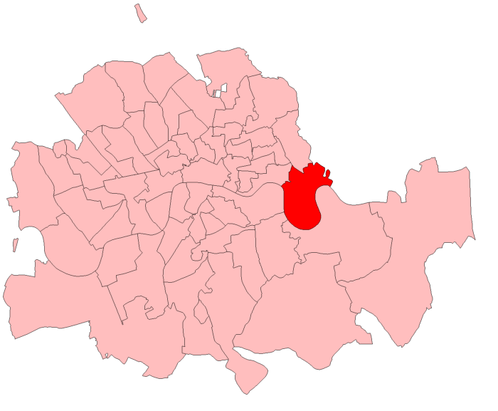 A map of Poplar constituency within the Metropolitan Board of Works area, as it existed from 1885 to 1918.